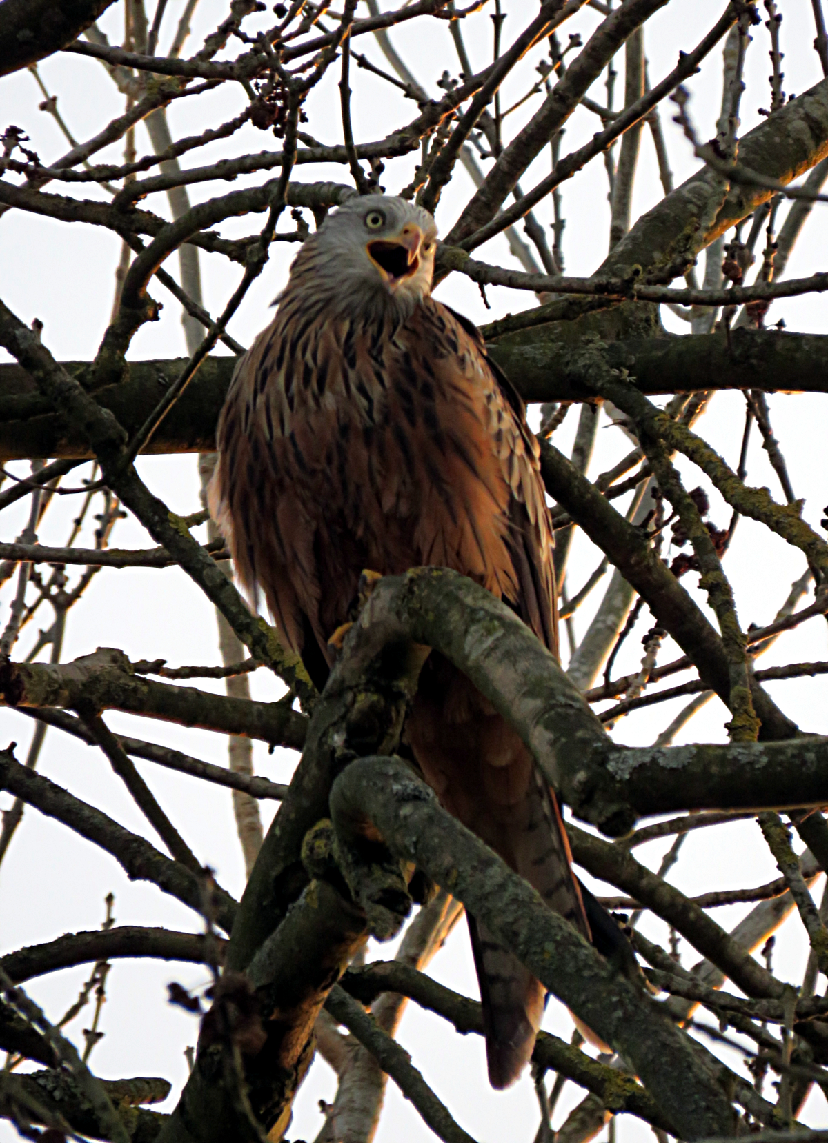 A young red kite photographed in the early evening, sitting in a tree. Photograph taken near Cookham, UK.